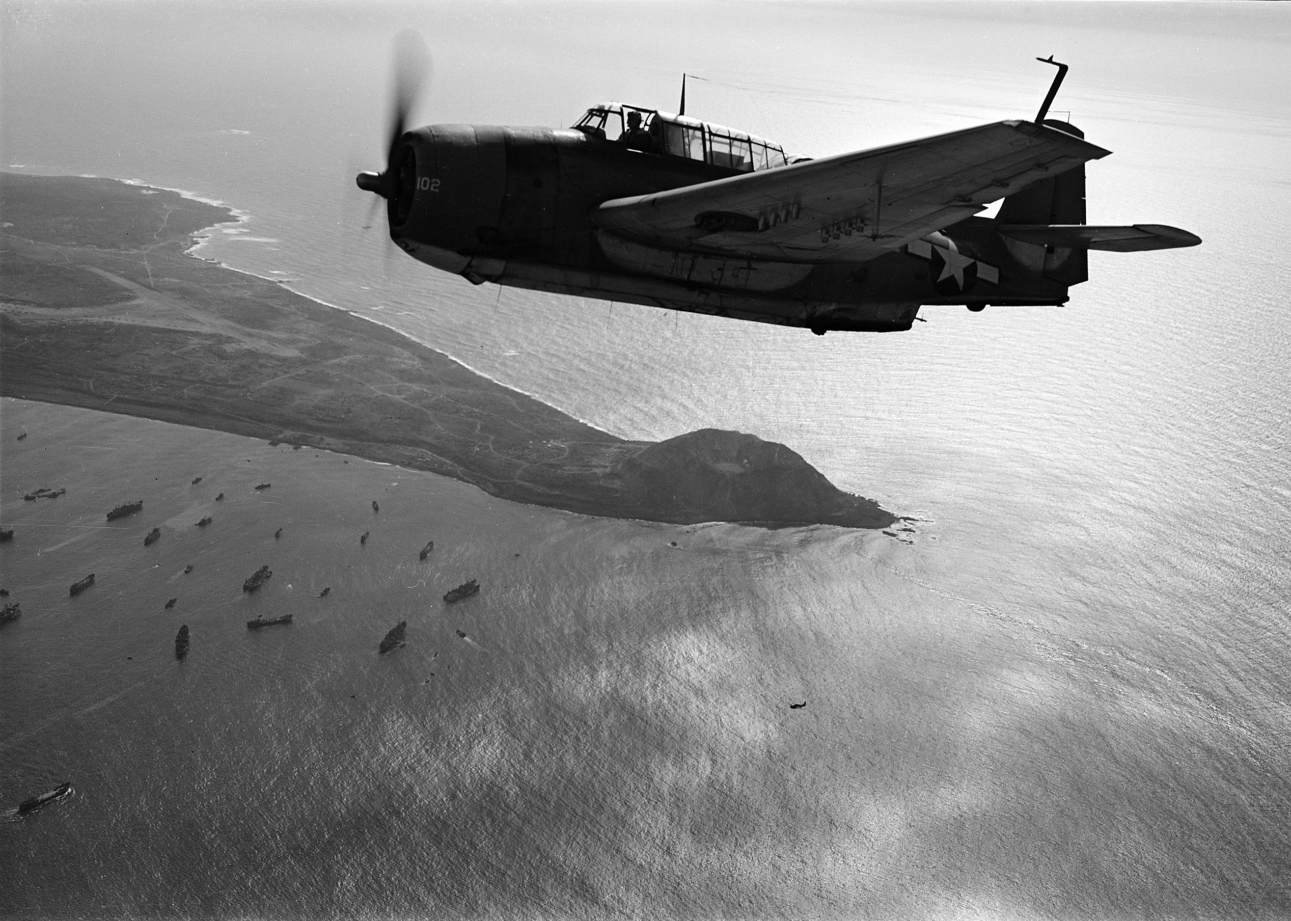 A U.S. Navy Grumman TBM Avenger, with Capt. Edward J. Steichen, head of the Navy's combat photography and director of the Naval Photographic Institute and Corp. William Damato aboard, over Iwo Jima.